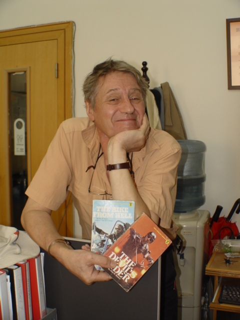 photo of scottish science fiction writer Richard Gordon in Shanghai in 2007